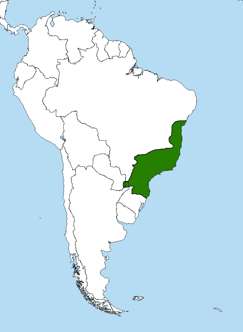 Bothrops jararaca, area. Selfmade, based on Jonathan A. Campbell, William W. Lamar: The Venomous Reptiles of the Western Hemisphere. Comstock; Ithaca, London; 2004: S. 391. Map-source: File:A large blank world map with oceans marked in blue.PNG